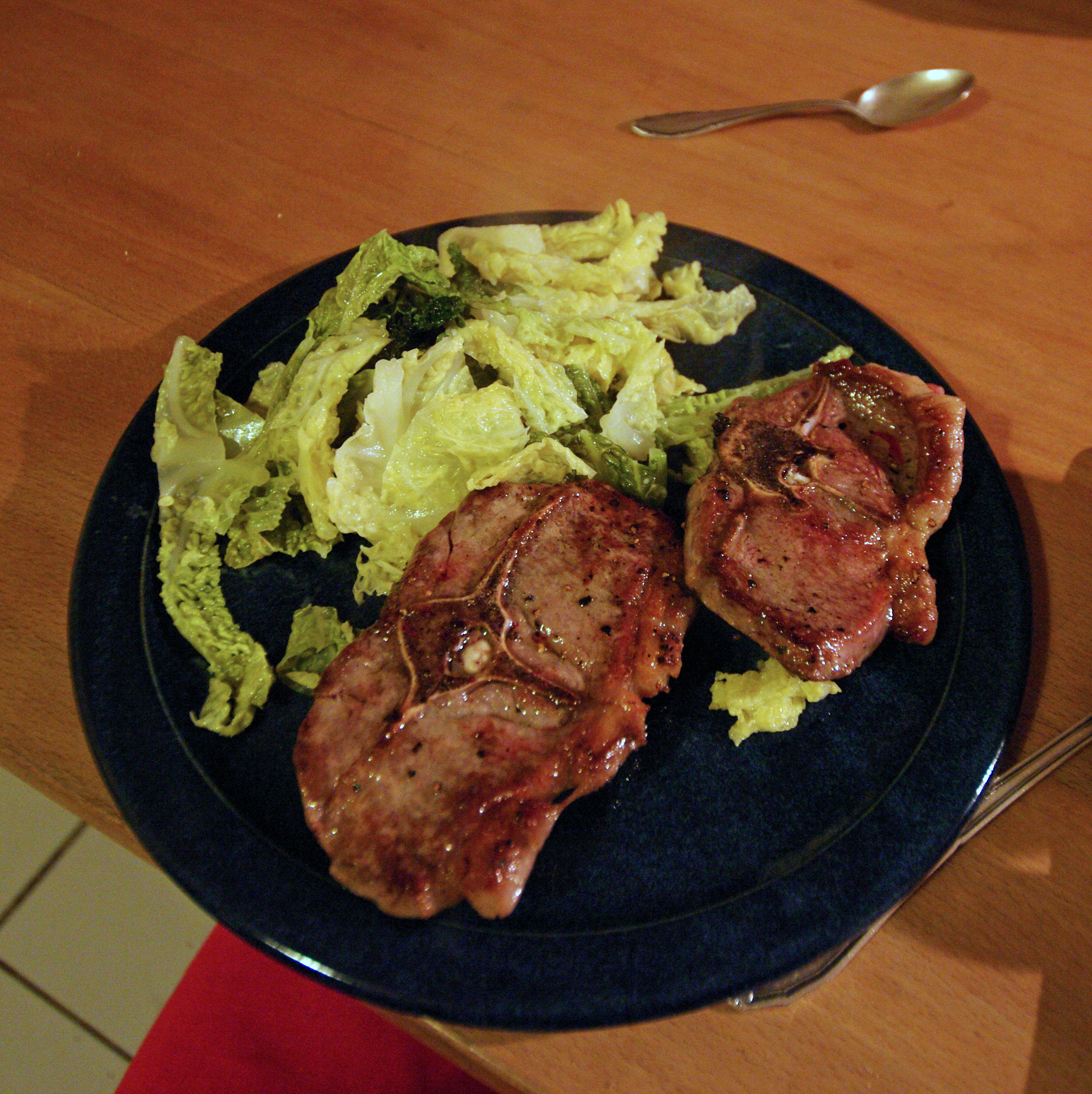 Lamb chops and savoy cabbage